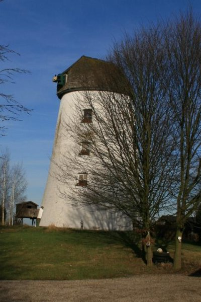 Cultural heritage monument No. 54 in Waldfeucht